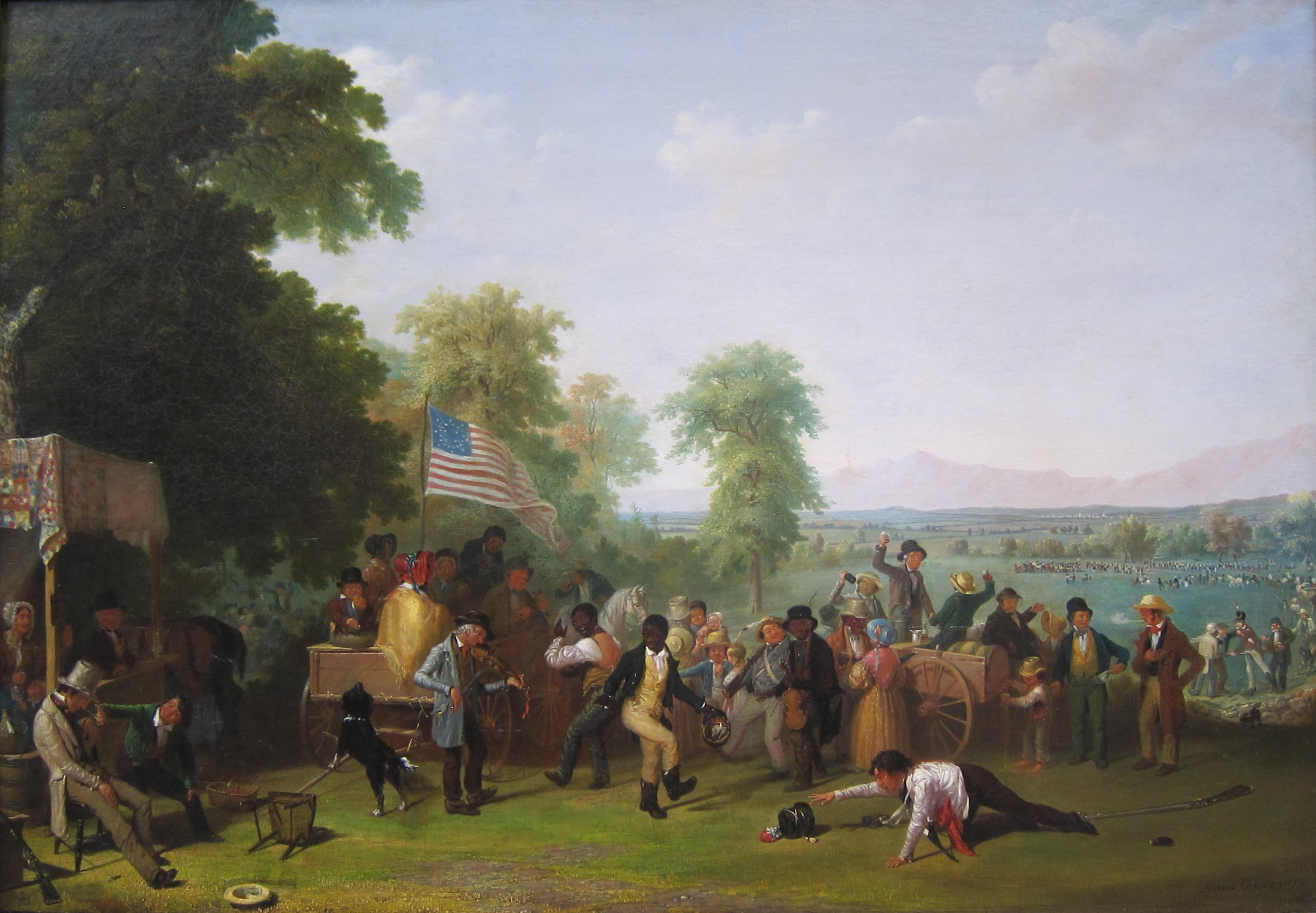 Militia Training, oil on canvas painting by James G. Clonney, 1841, Pennsylvania Academy of the Fine Arts